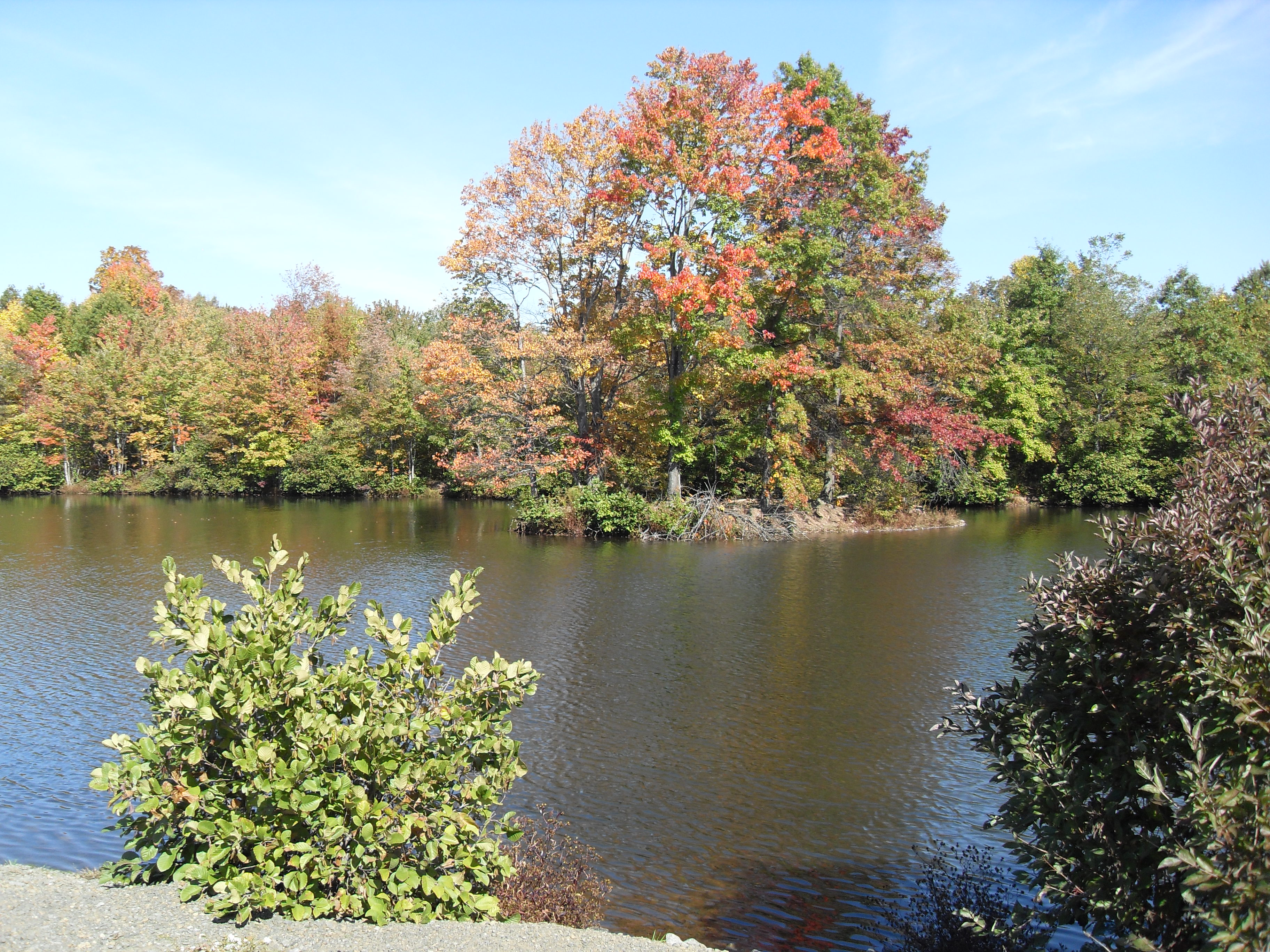 Manny's Pond, located in Hoffman Park.